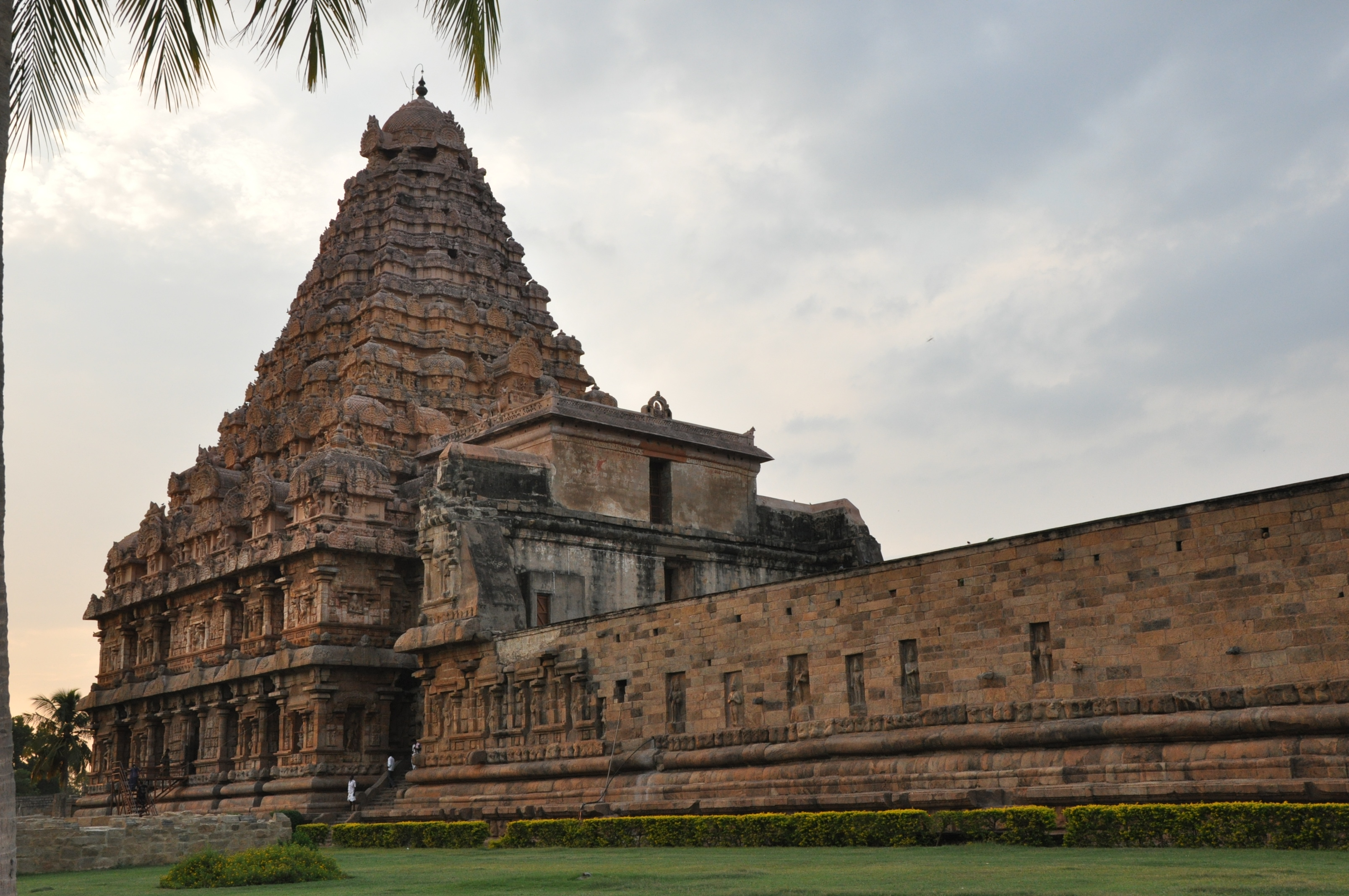 "A view of Majestic Brihadisvara Temple of Gangaikonda Cholapuram""A majestic view of Brihadisvara Temple of Gangaikonda Cholapuram"